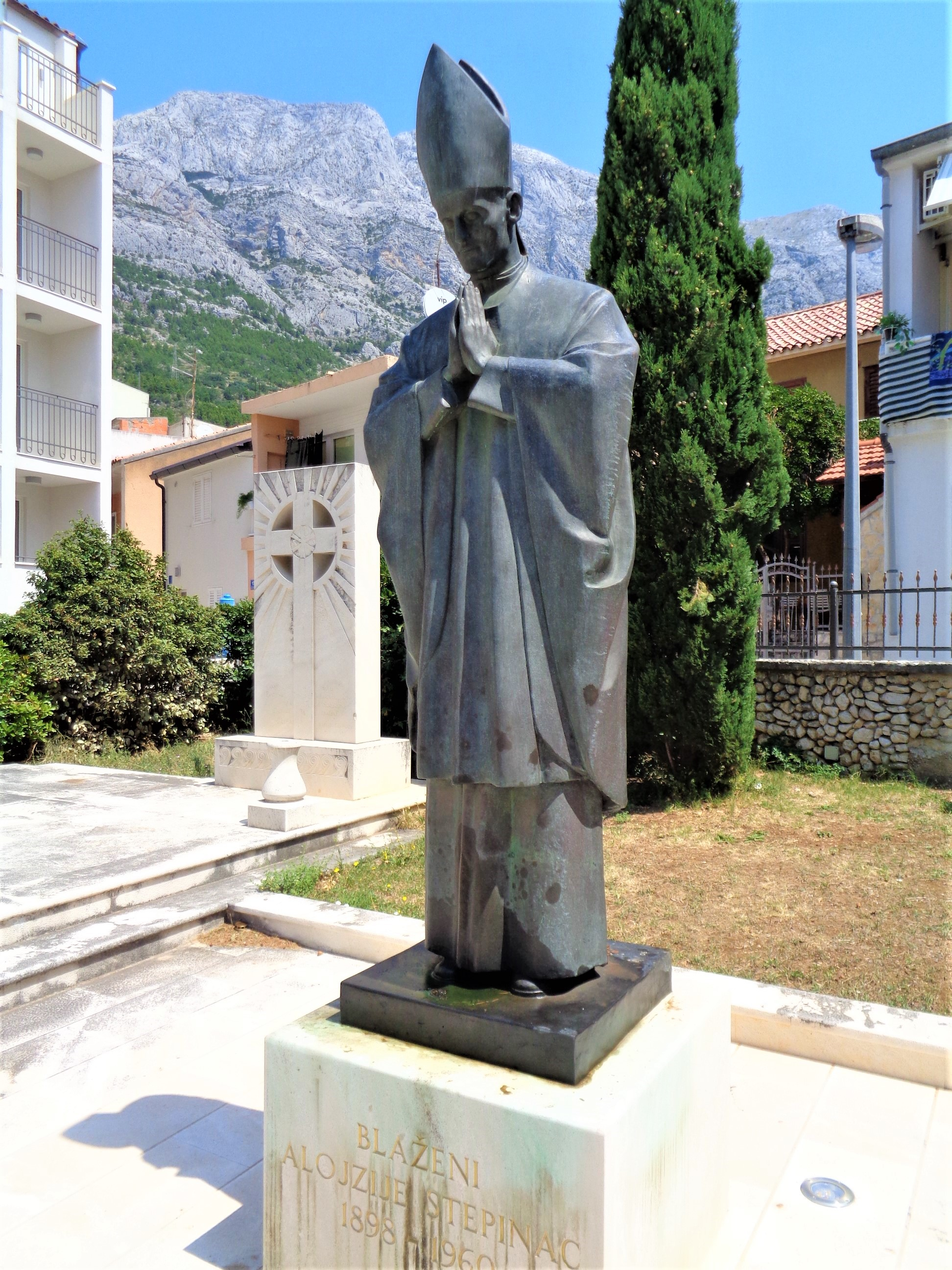 Statue of Cardinal Alojzije Stepinac, archbishop of Zagreb, in Baška Voda (Croatia); sculptor: Domagoj Kačan